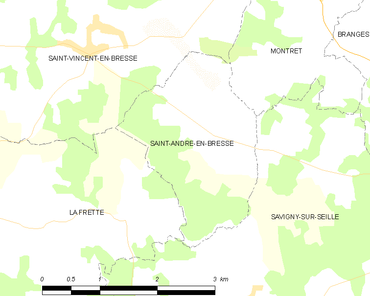 Map of French municipality